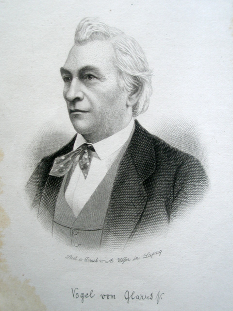 Swiss Poet Jakob Vogel (1816–1899)